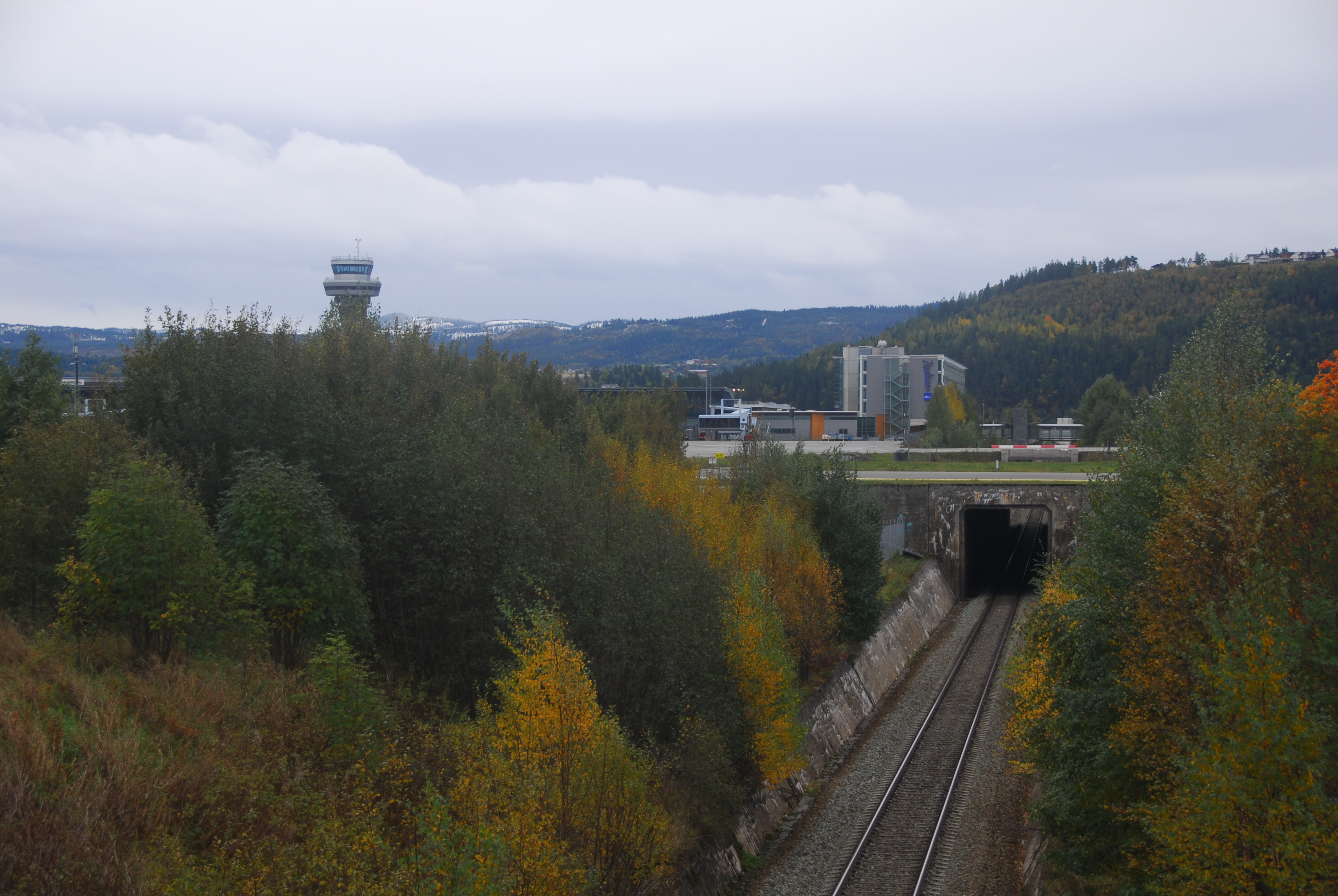 Looking south along the Nordland Line before it passes under the runway at Trondheim Airport, Værnes